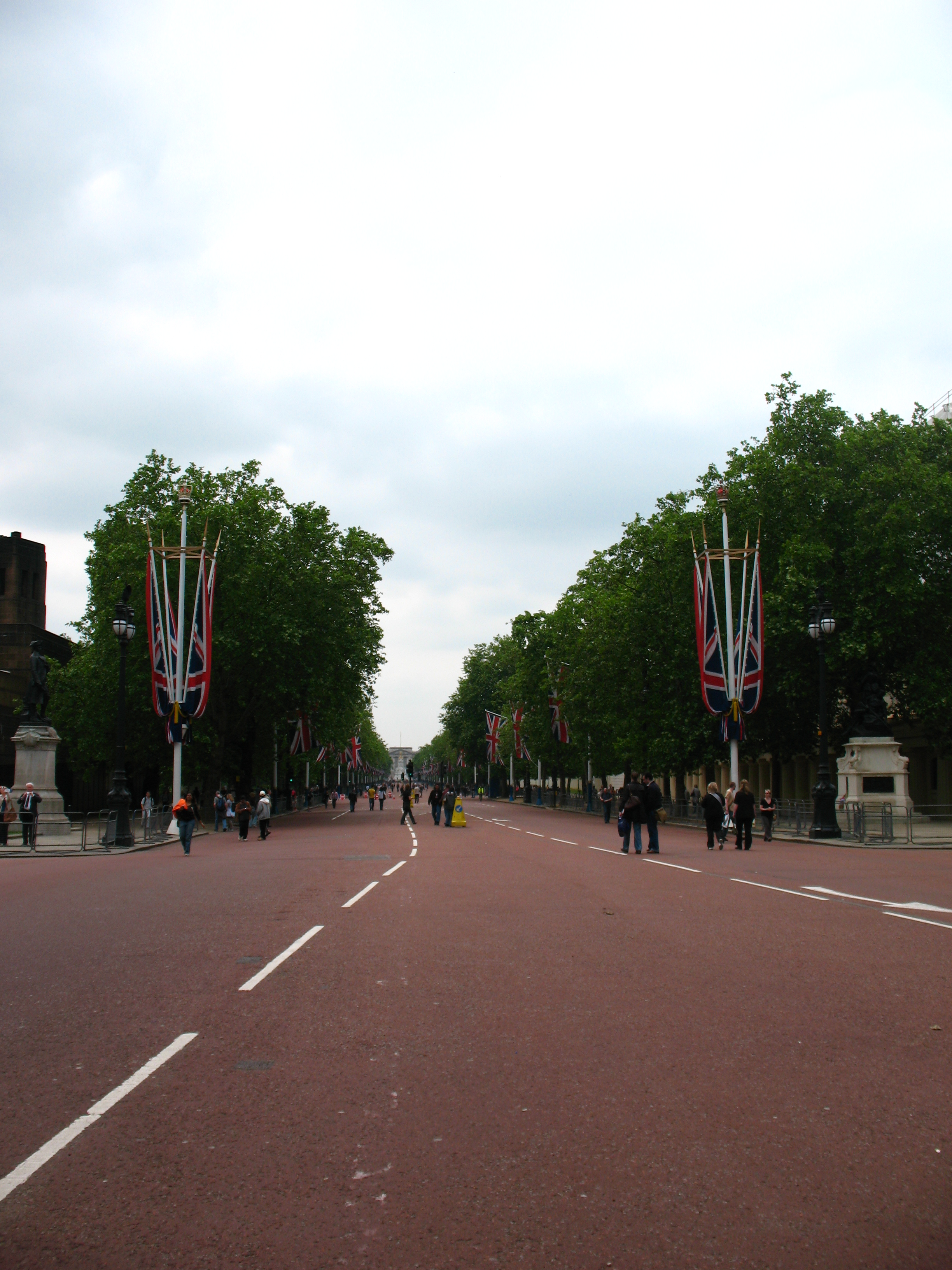 City of London